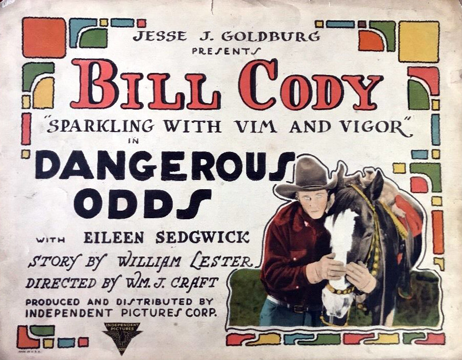 Lobby card for the American western film Dangerous Odds (1925).